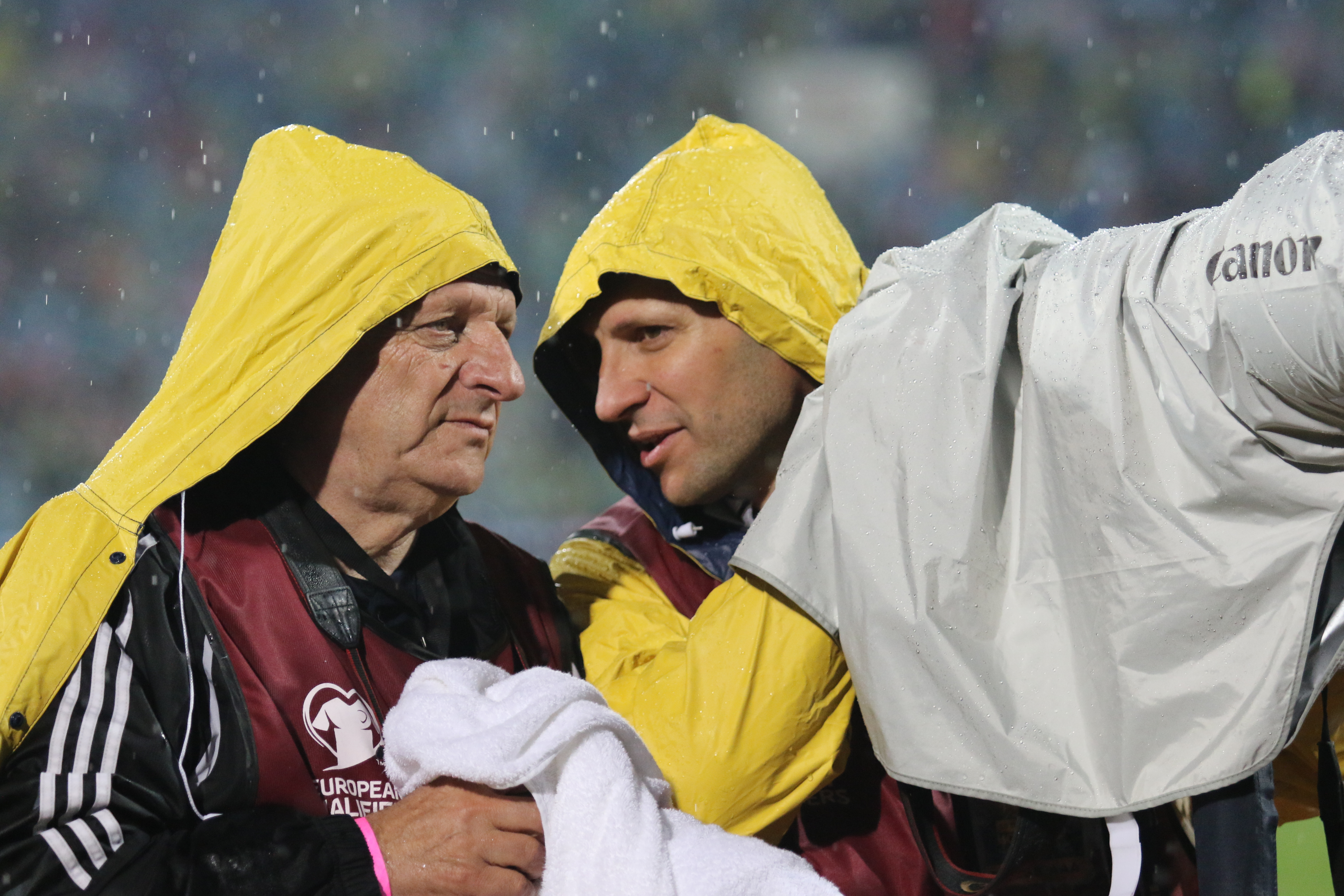 Bulgarian sports photographers Bonchuk and Kostadin Andonov, in May 2016, Sofia, Bulgaria.